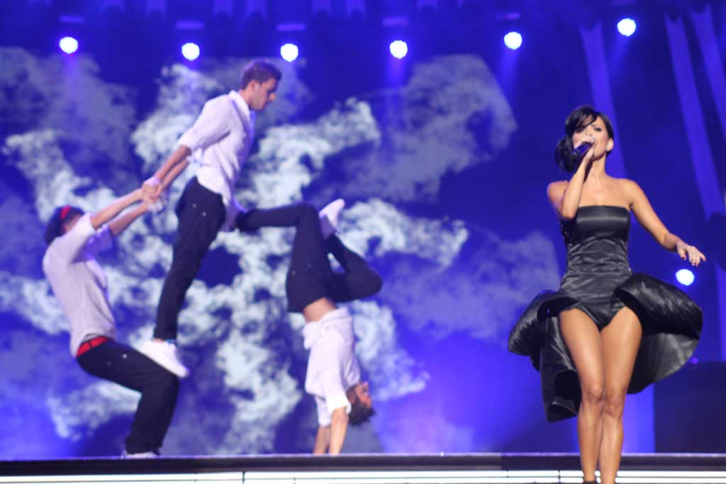 Inna at Sopot International Song Festival, Poland (8 August 2009).